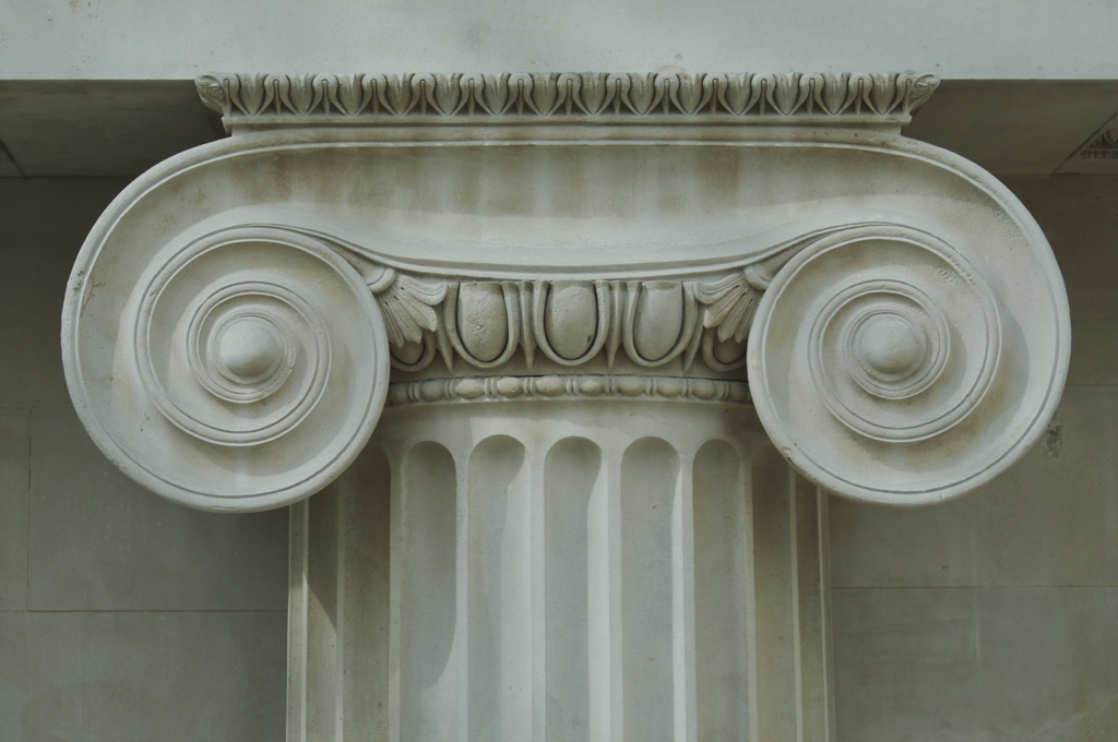 I had a wonderful day at the British Museum with CoryQ (of MonkeyRiverTown) and his wife Mary. These are everything I shot that day, unedited and uncleaned, except for shrinking them some to spead up the upload.